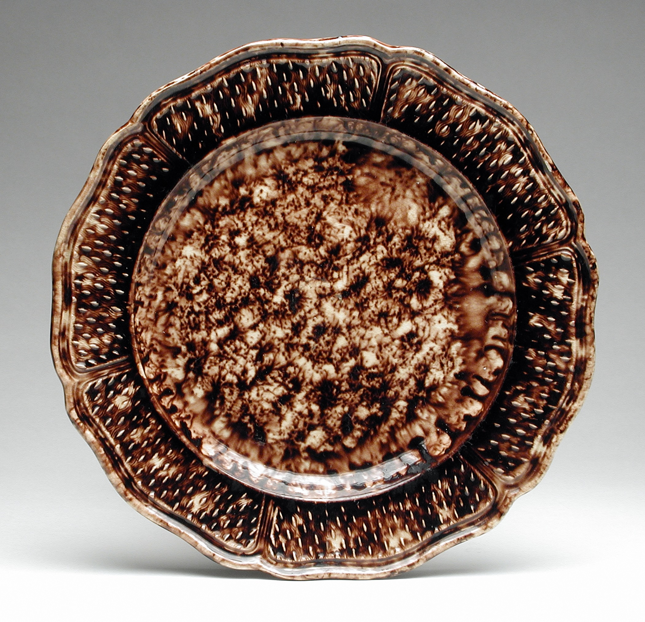 England, circa 1765 Furnishings; Serviceware Tortoiseshell ware, earthenware with lead glaze Gift of Dr. and Mrs. Denny B. Lotwin (M.82.206.10) Decorative Arts and Design Currently on public view: Hammer Building, floor 3